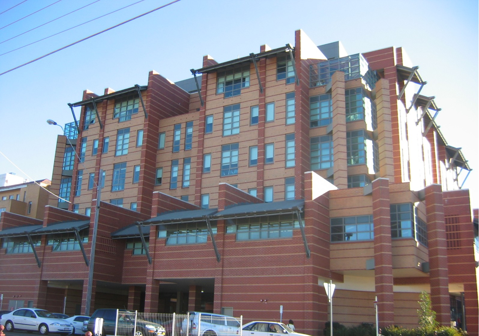 Ballarat Hospital, Ballarat Victoria Taken By Andrew Amos (Skyscraper297) 14 May 2005